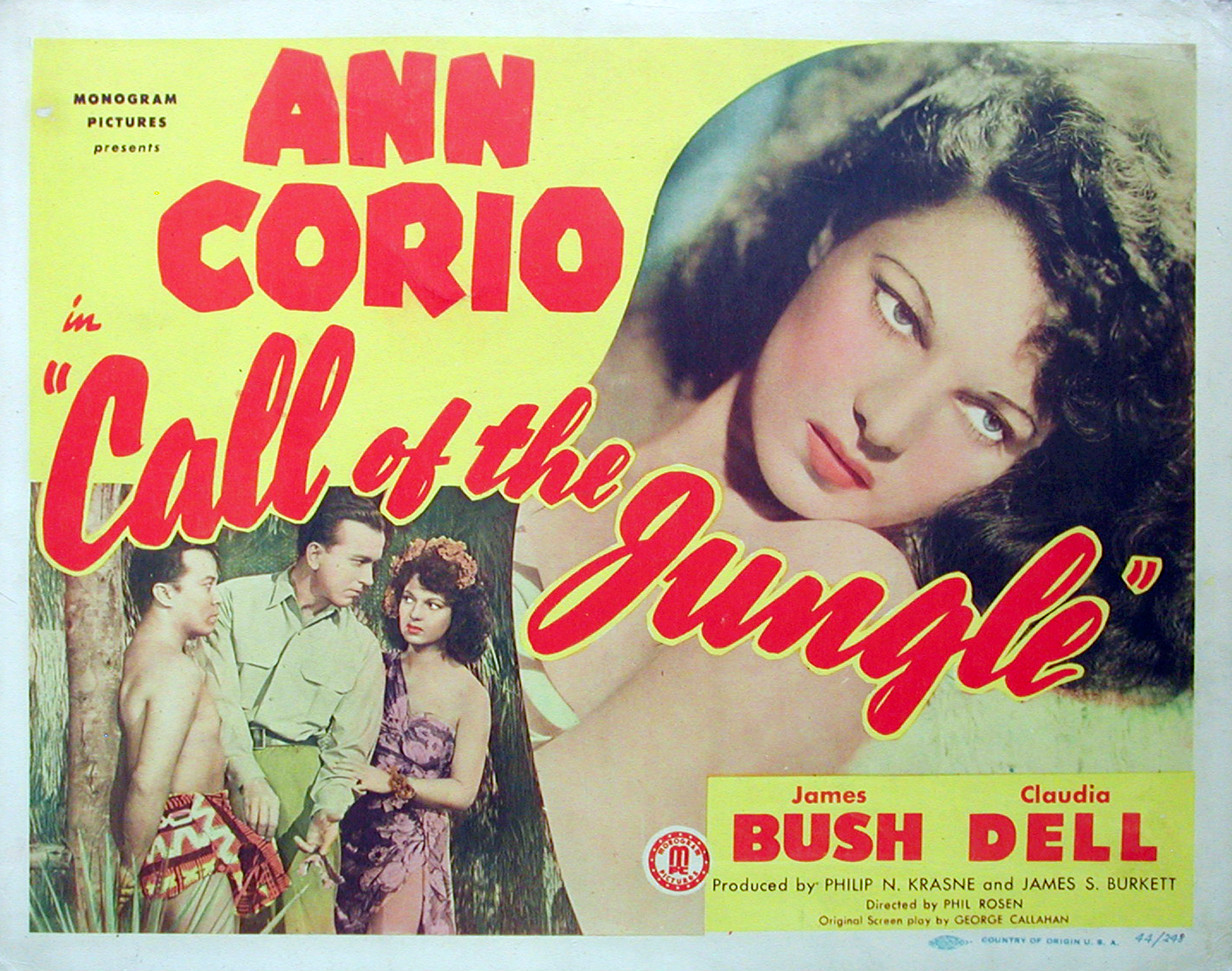 Lobby card for the American film Call of the Jungle (1944) with Ann Corio and James Bush. The item has no copyright markings on it as can be seen in the links above. At bottom right is a mark indicating the card was printed by a union print shop, Country of Origin USA, and 44/243.